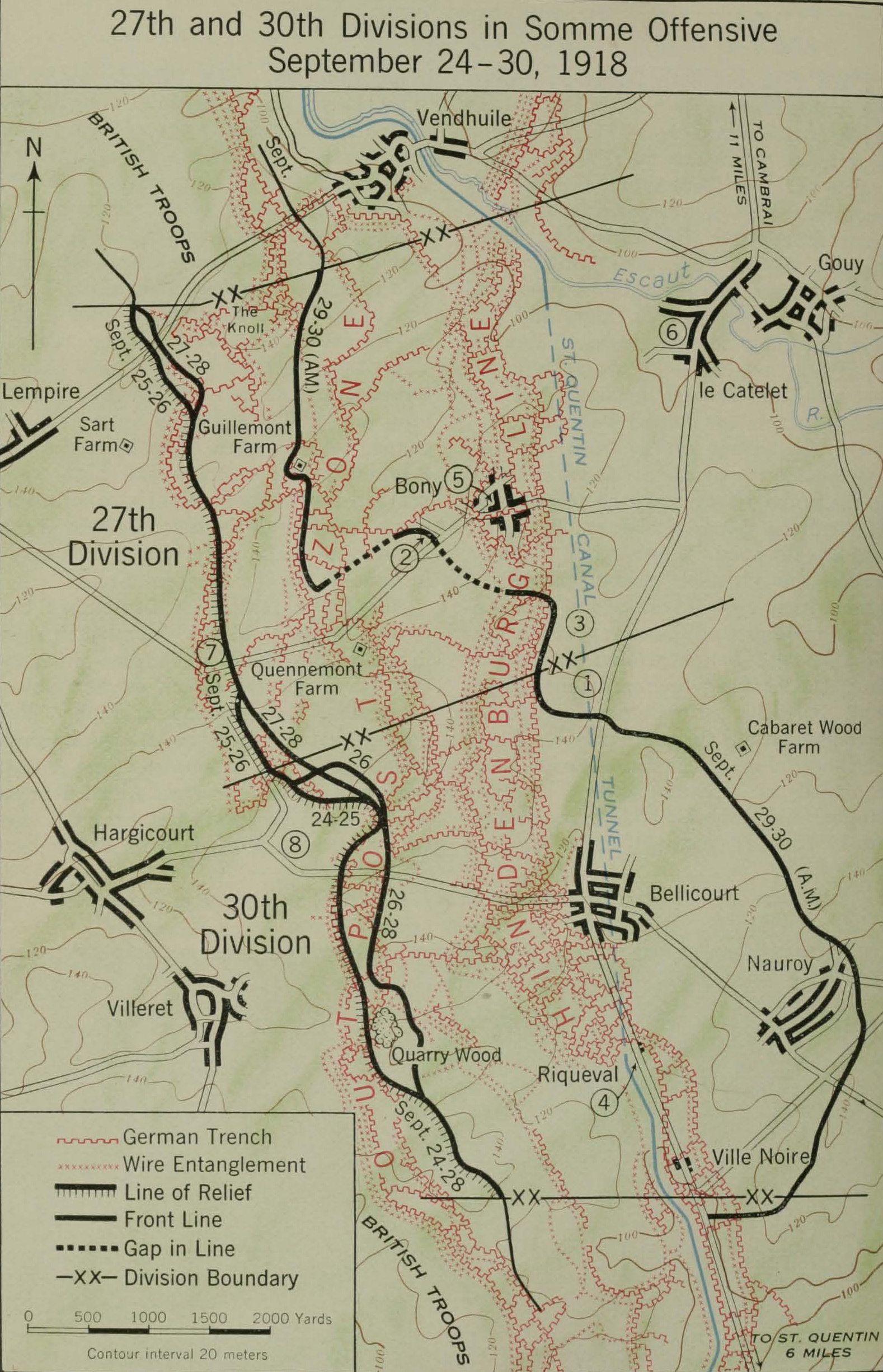 Map showing the operations of U.S 27th and 30th Divisions (affiliated to Australian Corps) as part of British Fourth Army during the Battle of St Quentin Canal, 29 September 1918. The ground was actually captured by combined American and Australian operations. 1) Bellicourt Monument; 2) Somme American Cemetery; 3) Bellicourt Tunnel (under tunnel mound).